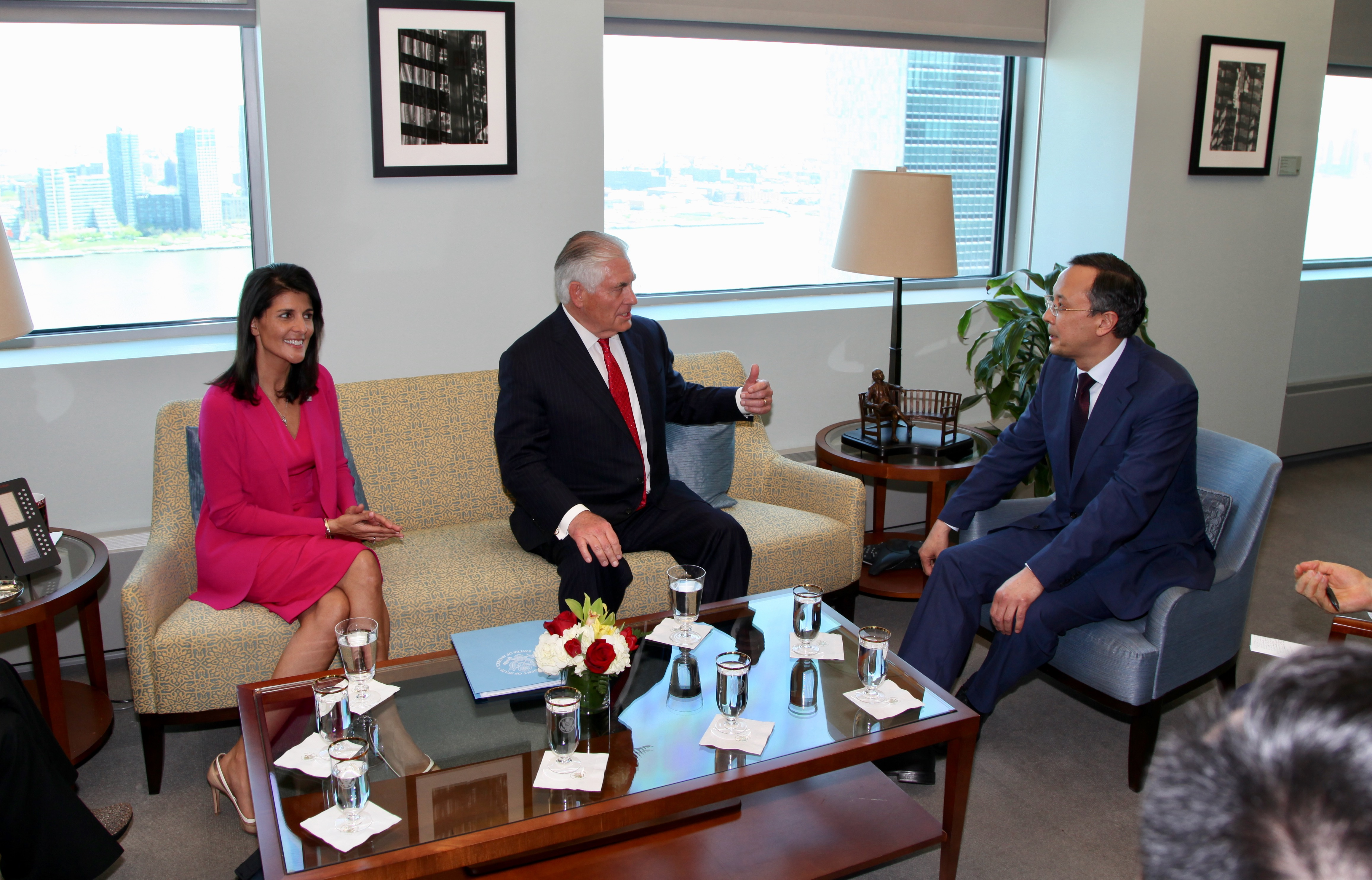 U.S. Secretary of State Rex Tillerson, with Ambassador Nikki Haley, U.S. Permanent Representative to the United Nations, meets with Kazakhstani Foreign Minister Kairat Abdrakhmanovin in New York City on April 28, 2017. [State Department photo/ Public Domain]